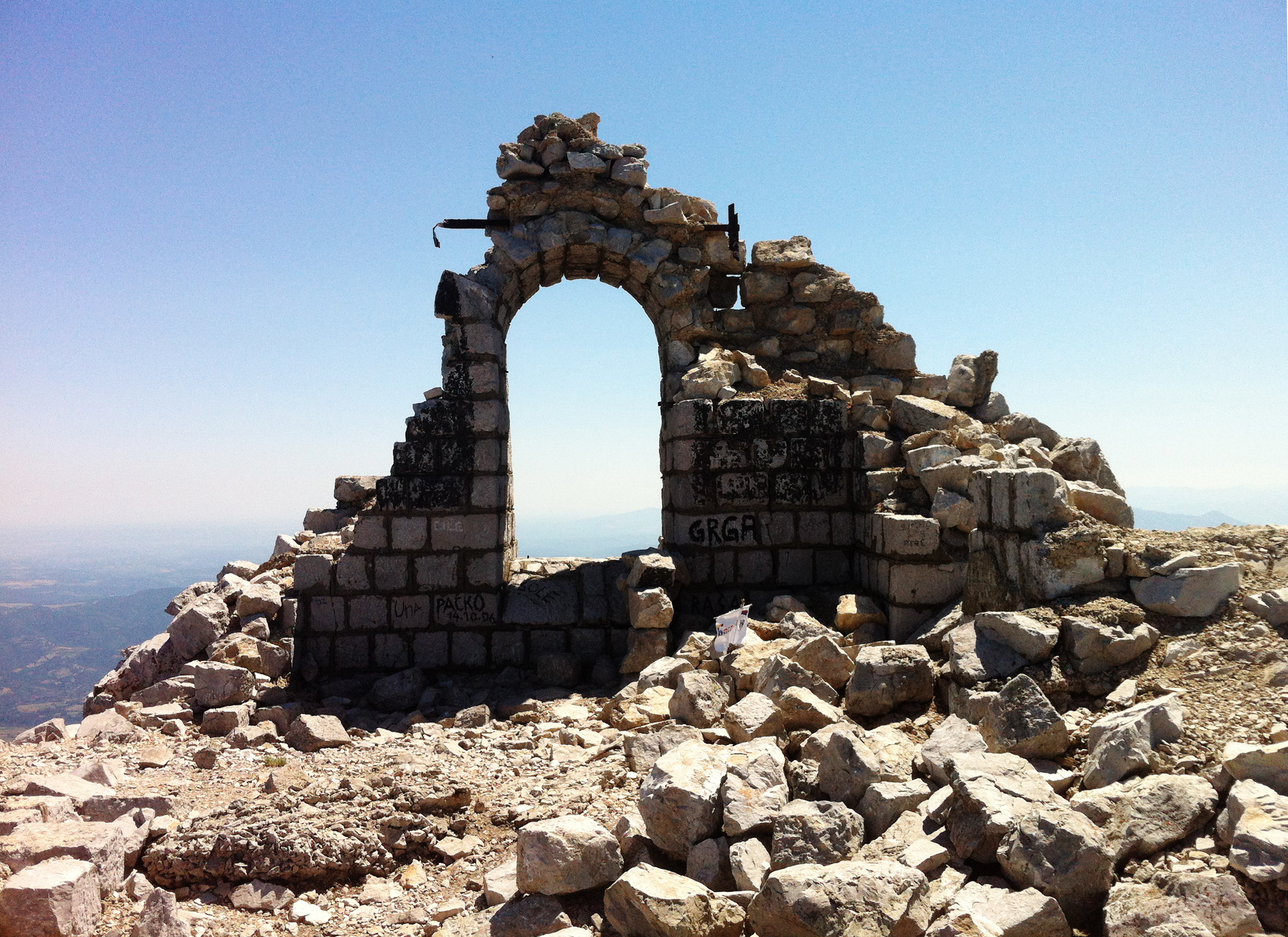 Ruins of chapel on summit of Šiljak, Rtanj Mountains, Serbia. It was built by Greta Munch, in memory of her husband Julius Munch, owner of the mine “Rtanj”. The chapel was blown in the 1930ies by treasure hunters, who suspected gold here.